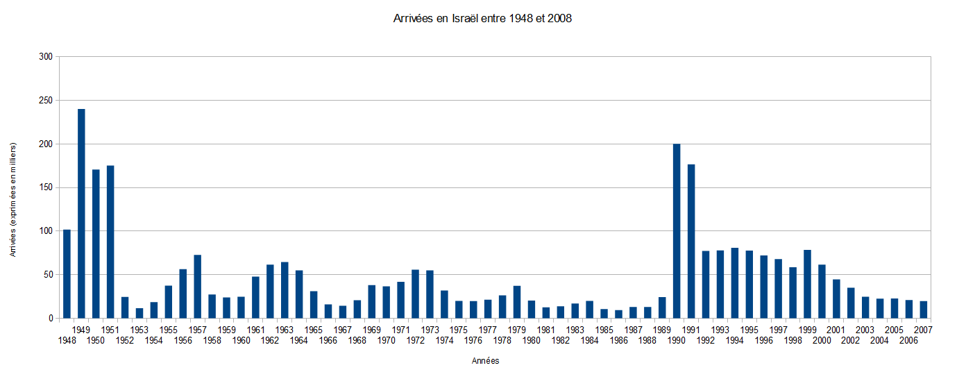 (via Goole Translate) Variation in migration to Israel since its creation date and until 2008 with two major peaks: just after the establishment of the "Law of Return" (until 1952) and from the dislocation of USSR in 1990.